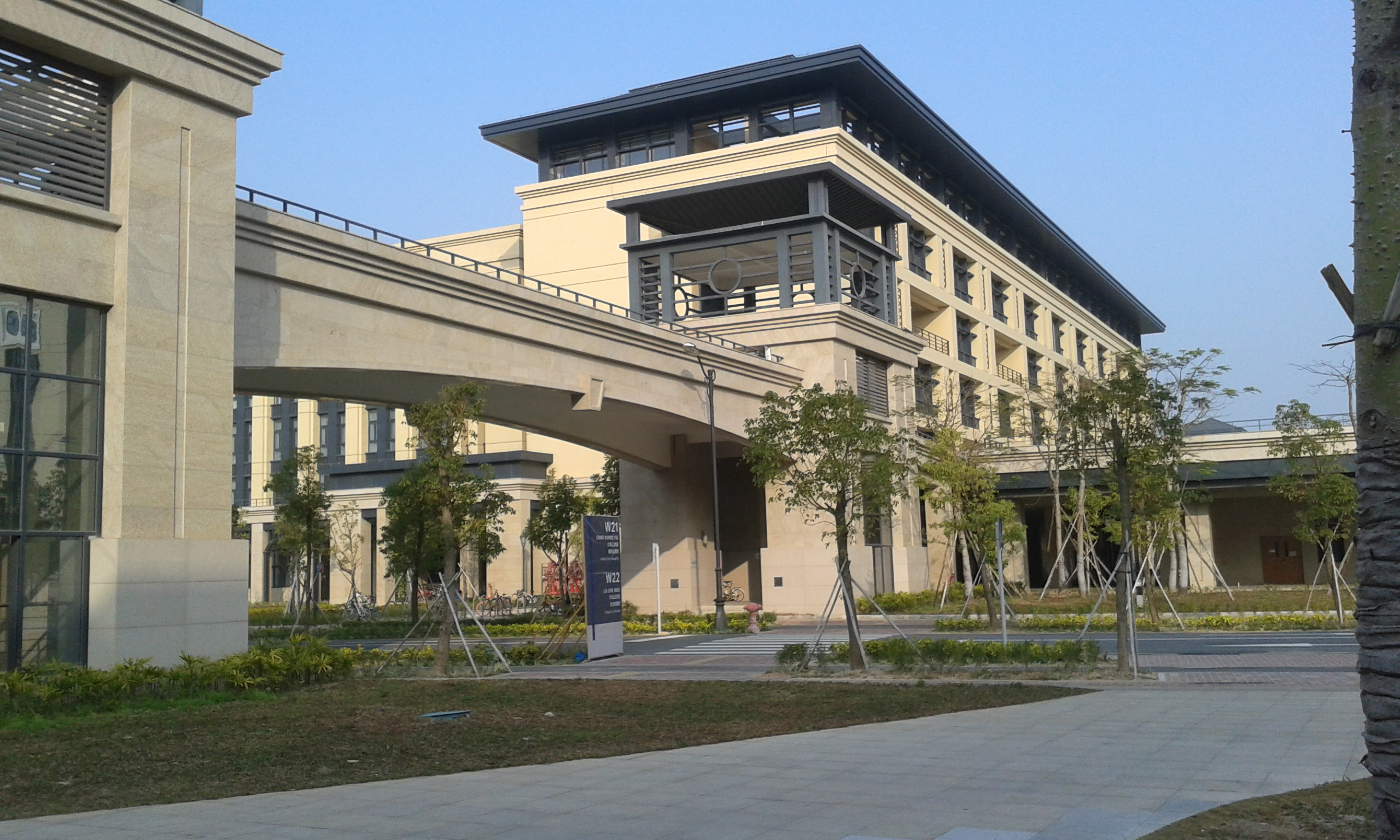 UM in Hengqin